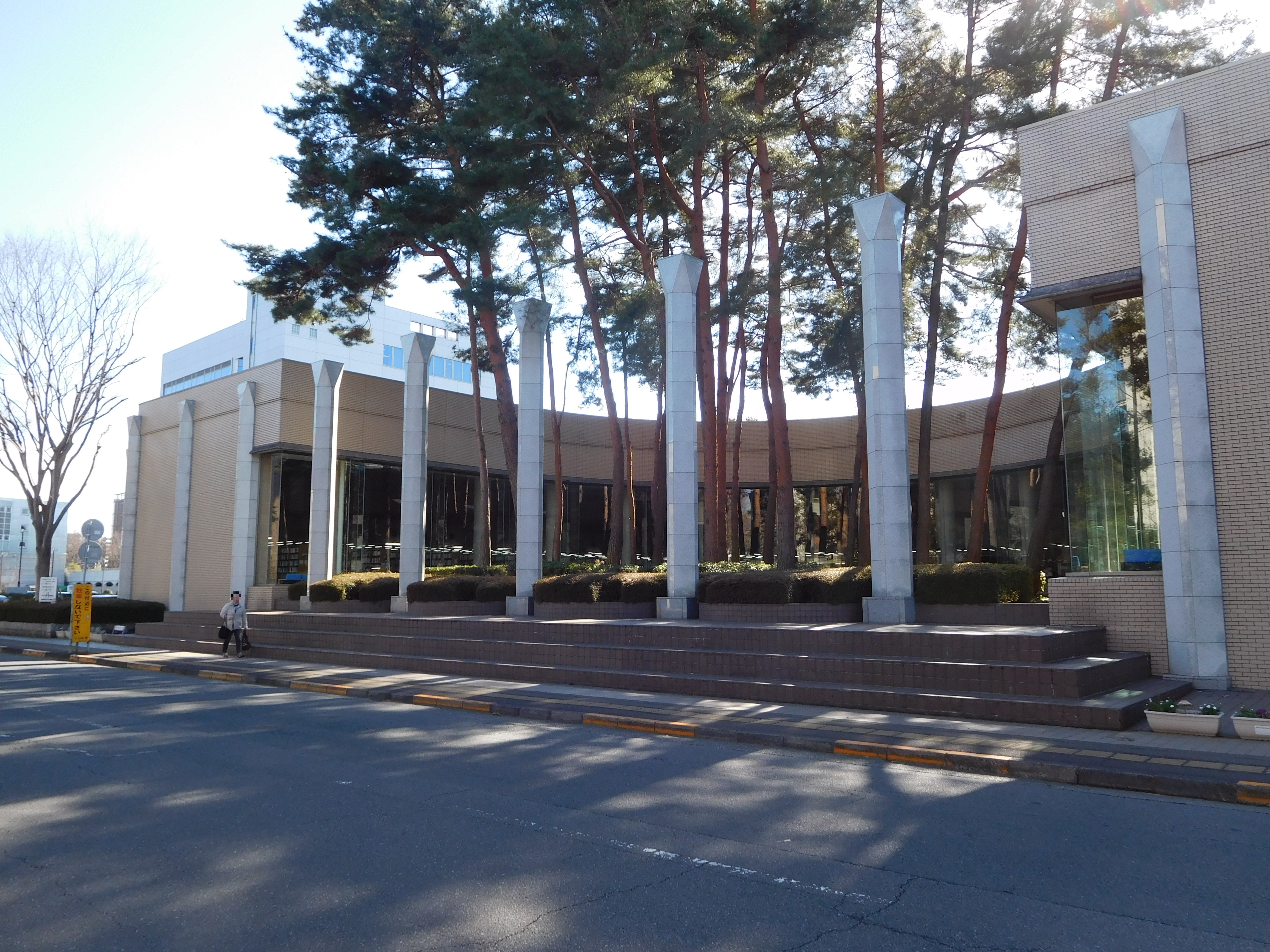 This is the Tsukuba Public Library, which is in Tsukuba, Ibaraki, Japan.